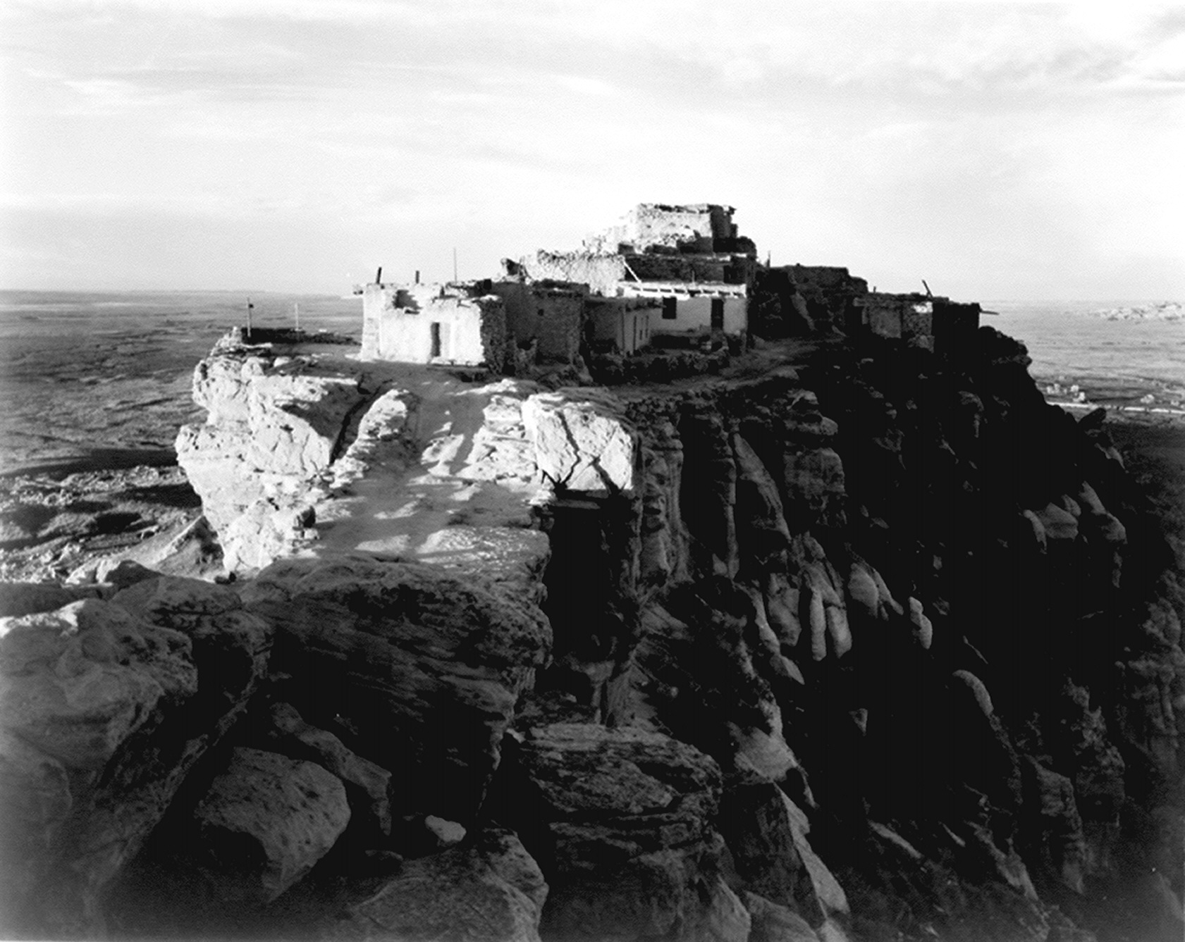 Hopi pueblo of Walpi — northeastern Arizona. Photographed by Ansel Adams in 1941.